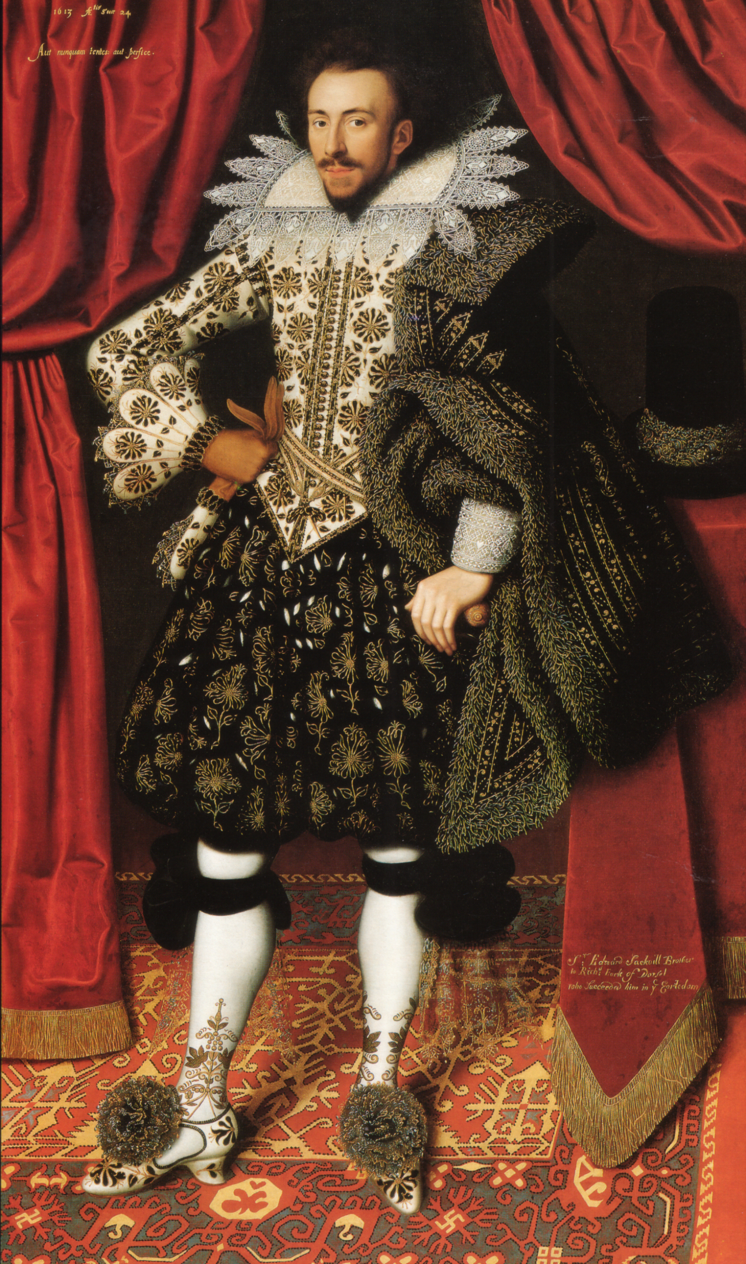 Portrait of Richard Sackville, 3rd Earl of Dorset (1589-1624) an inscription in a later hand misidentifies the sitter as Richard Sackville's brother Edward (the costume is documented as belonging to Richard Sackville; see commentary in Hearn, Karen, ed. Dynasties: Painting in Tudor and Jacobean England 1530-1630. New York: Rizzoli, 1995. ISBN 0-8478-1940-X